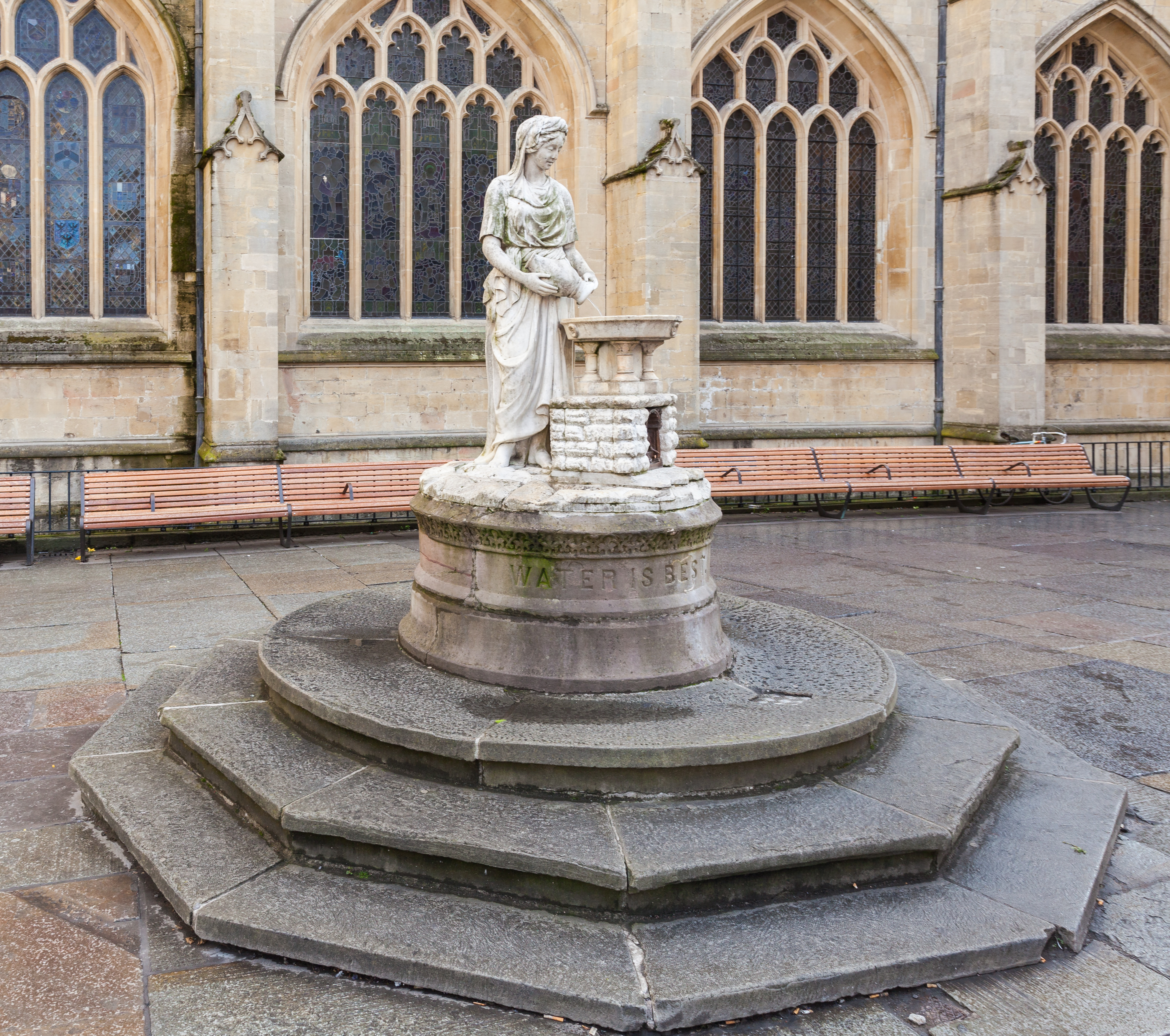 Rebecca Fountain, Bath, England